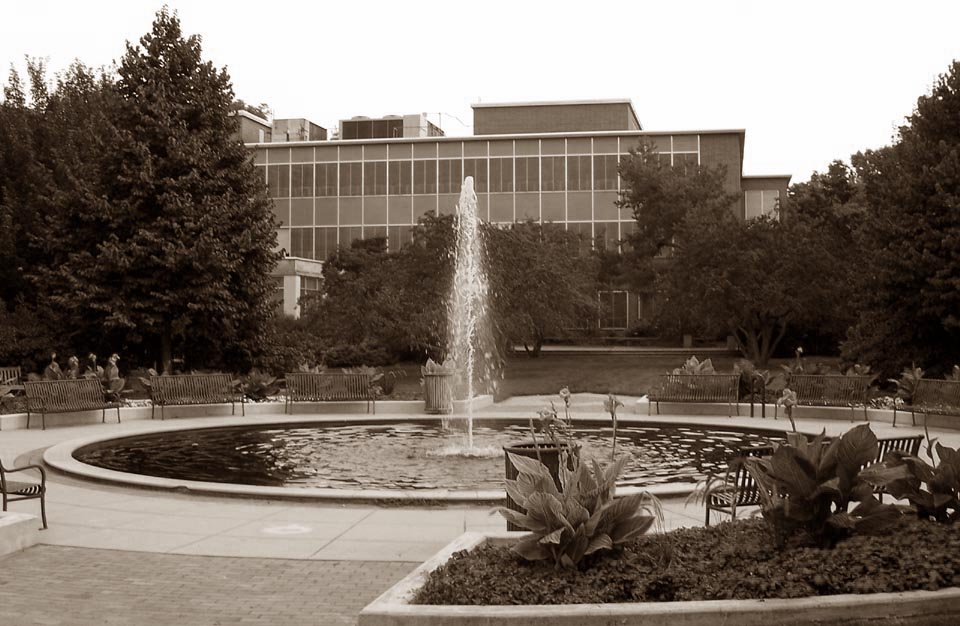 Photo self-taken and sepiatoned.